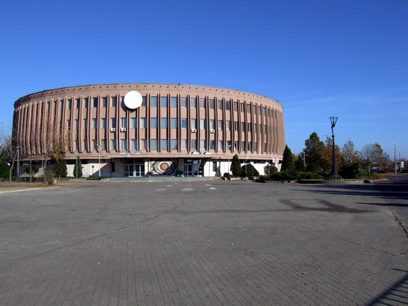 City-coliseum in Békéscsaba